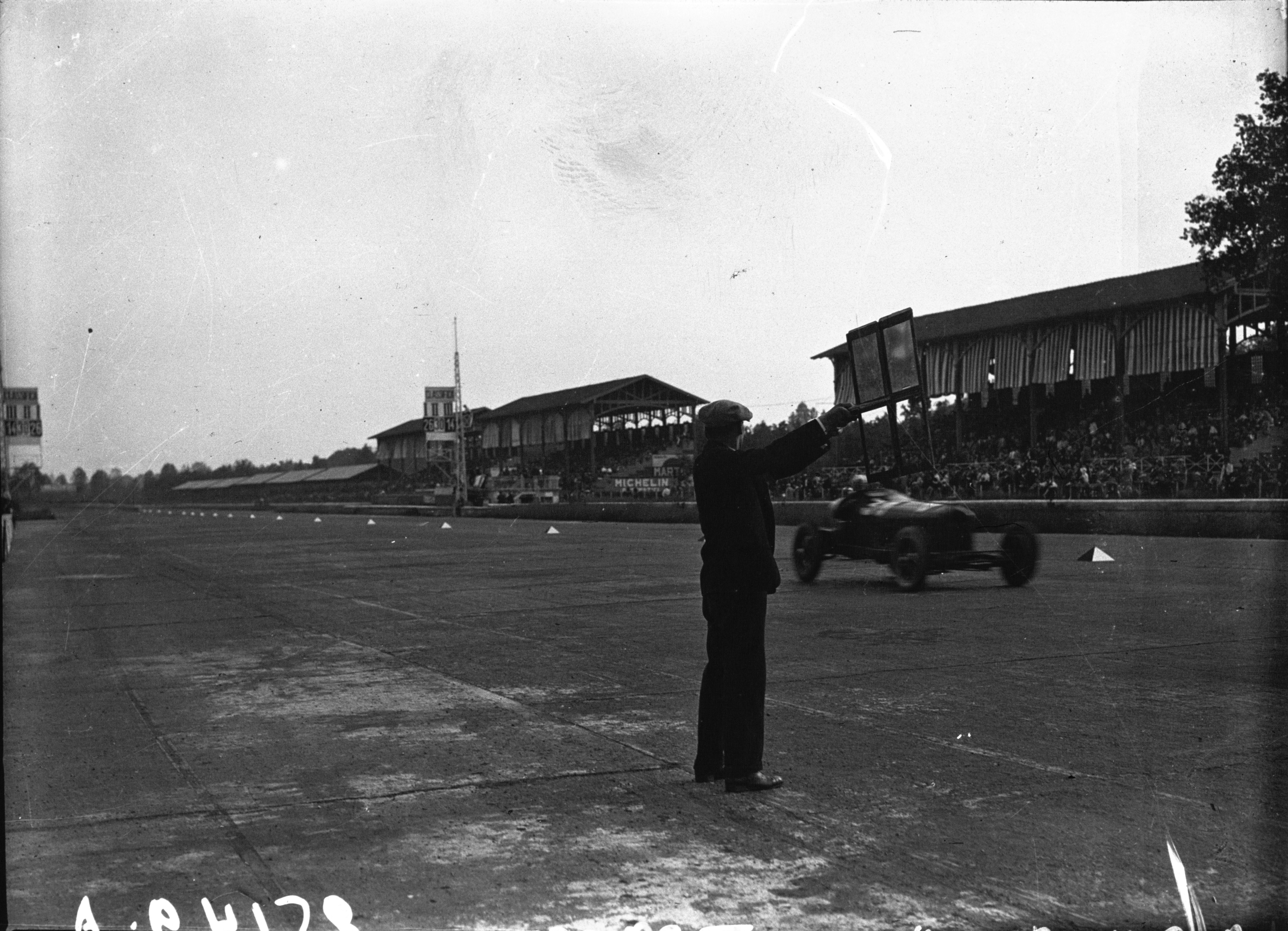 Finish of the 1931 Italian Grand Prix